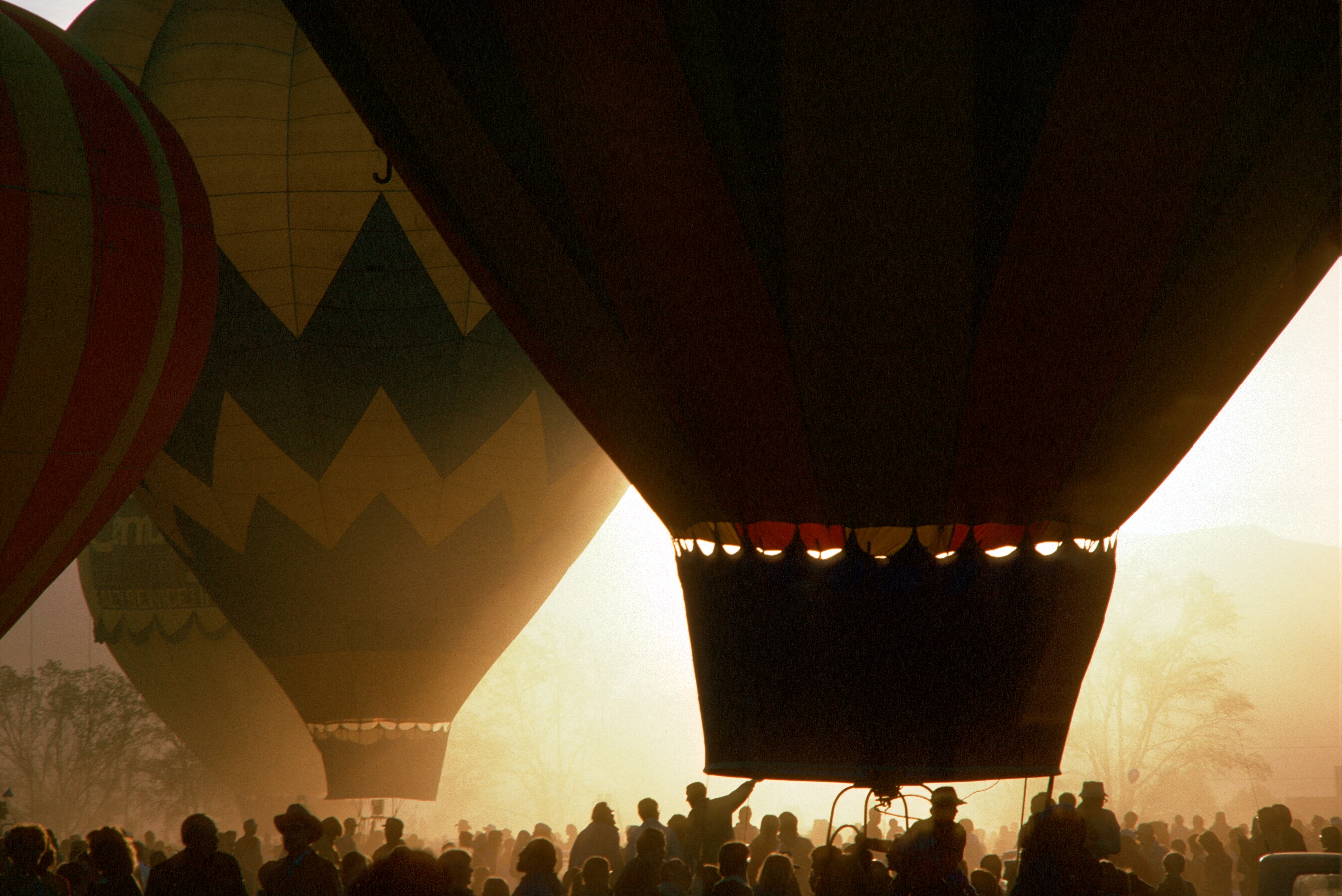 Early morning scene at the Albuquerque Balloon Fiesta. Other images by this contributor - User:Sba2 Use this image as needed, but for uses other than personal, please credit as "Photo by Scott Williams".